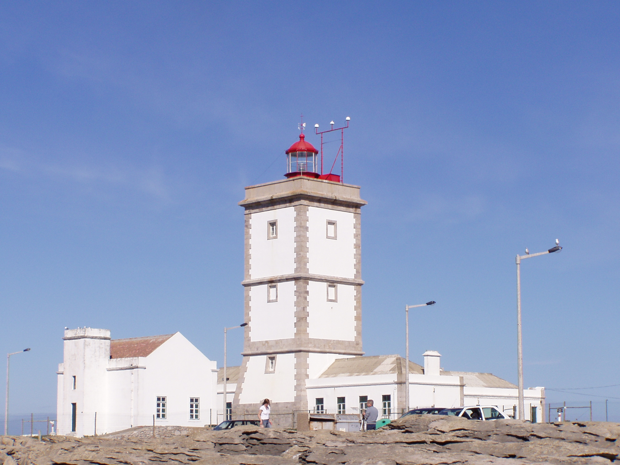 Cabo Carvoeiro lighthouse. Administered by the Navy. Peniche, Portugal.